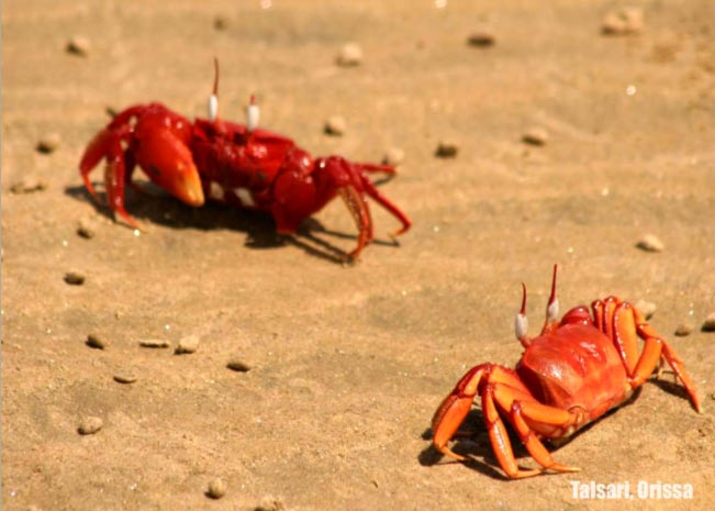 red crabs